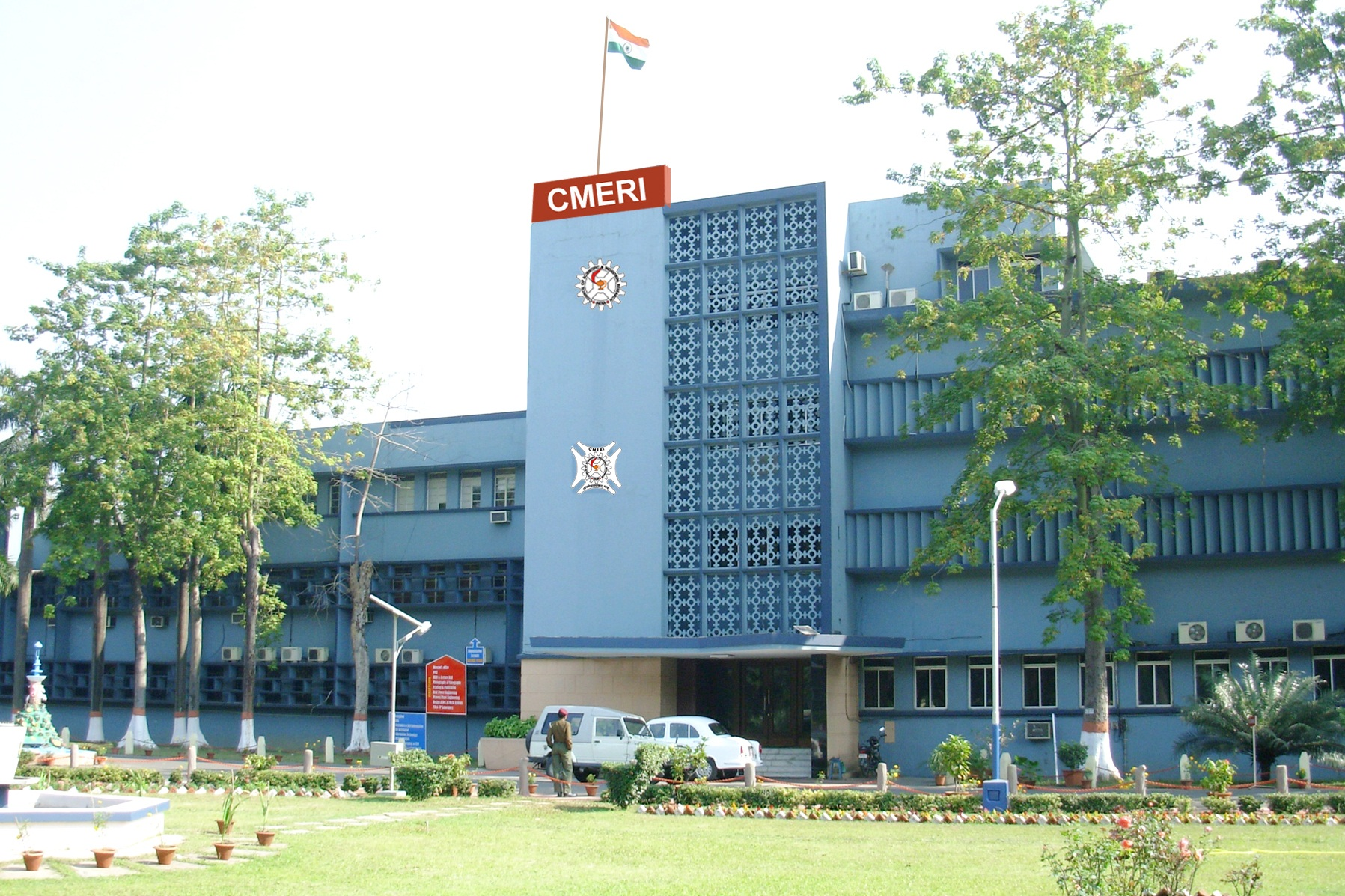 The photograph of CMERI Main Building